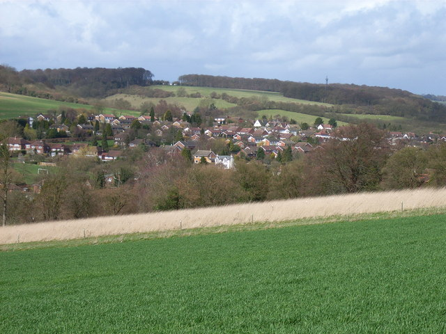 Hughenden Valley. Hughenden Valley is a modern residential village. A view across fields from the Hughenden to Cryer's Hill footpath.